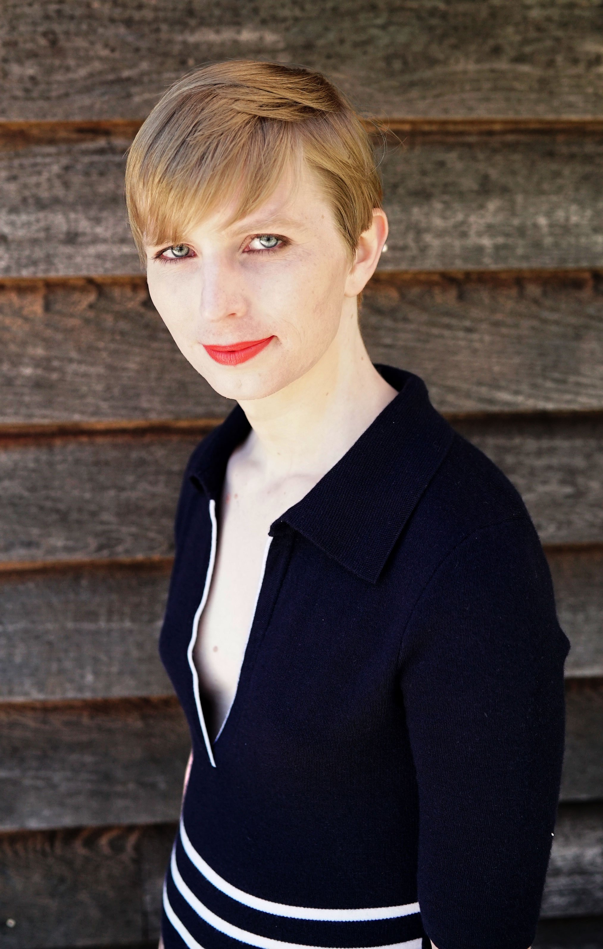 Chelsea Manning pictured in a photograph published to her Twitter account on 18 May 2017.